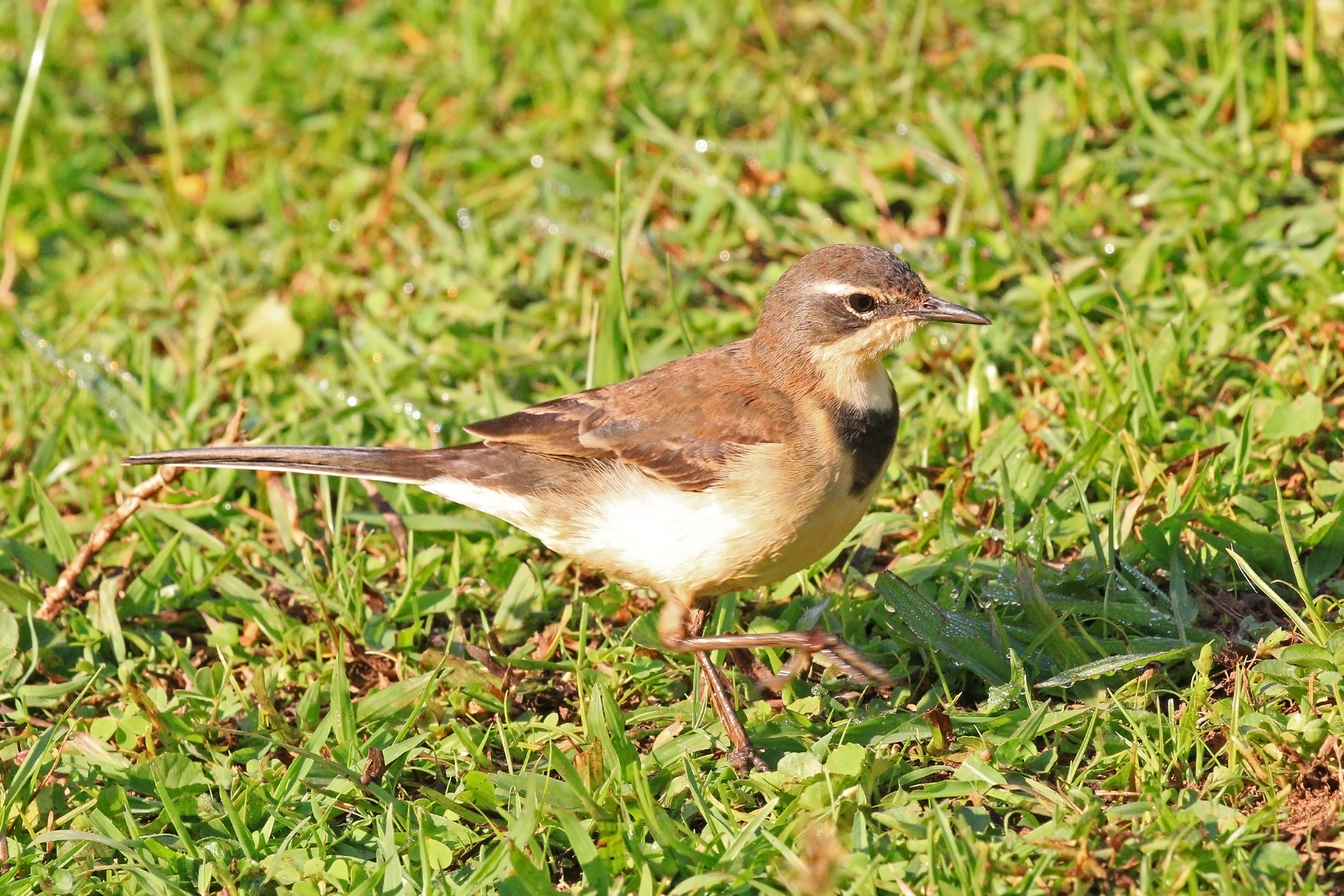 Cape wagtail (Motacilla capensis), Lake Bunyonyi, Uganda